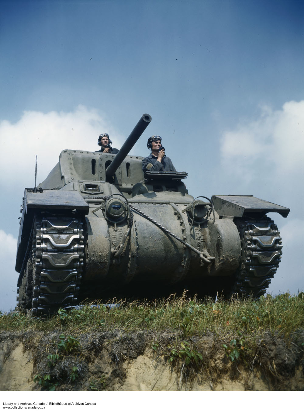 Canadian Ram tank used for training at Camp Borden